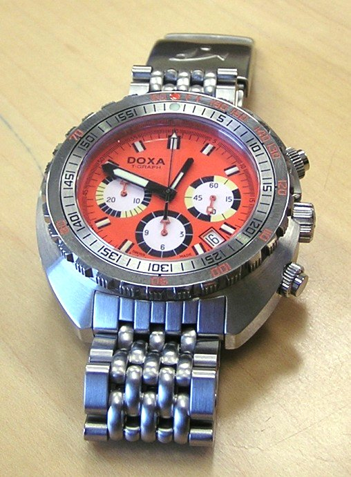 The T-Graph watch from Doxa.